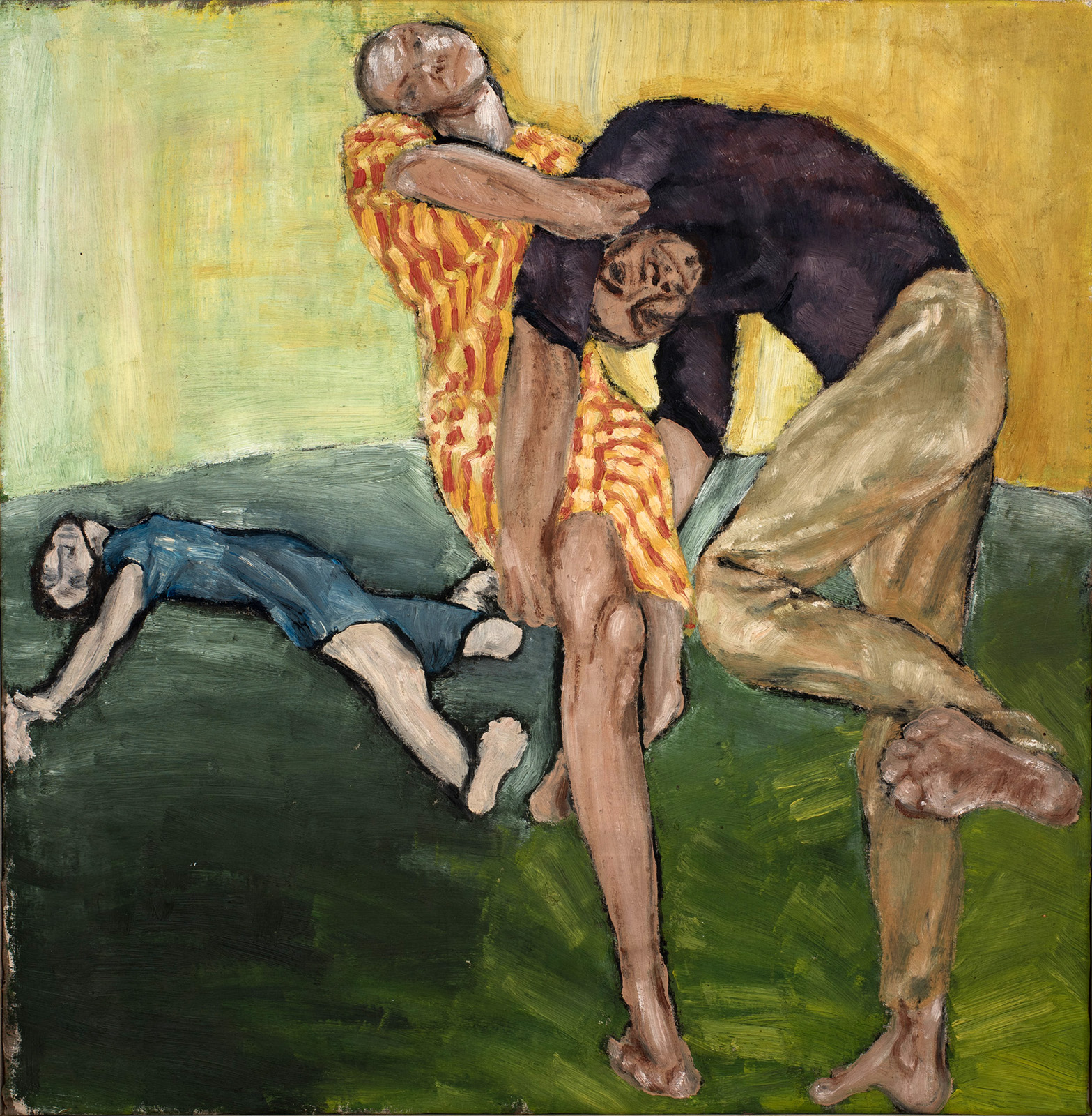 Josef Hnízdil, Dance l, 1969